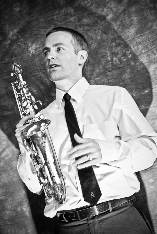 Daniel Bennett holding sax